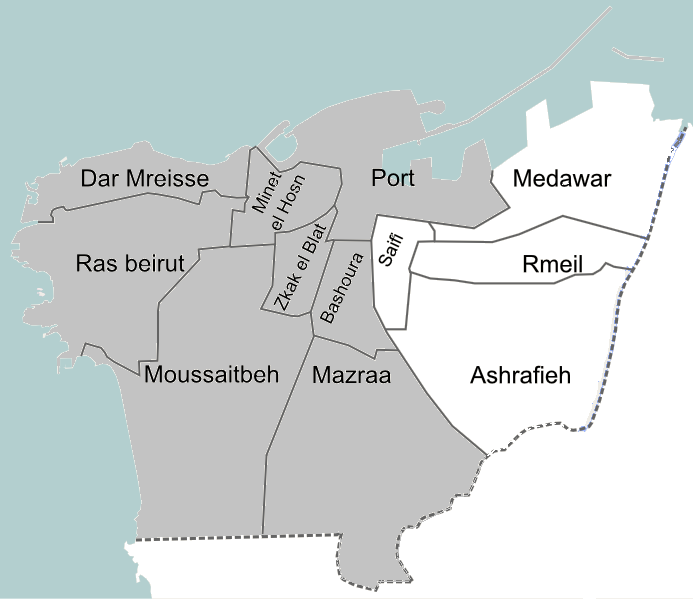 The Beirut II Electoral District, under the 2017 Election Law